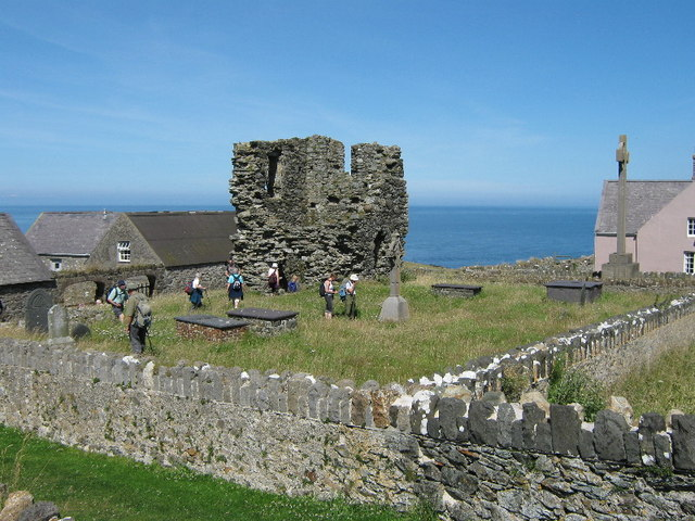 A memorial stone in this churchyard apparently* states: ""RESPECT the souls of the 20,000 saints whose remains lie close to here". I didn't manage to find the stone, so I cannot verify the statement. However, the graveyard itself is pretty small!